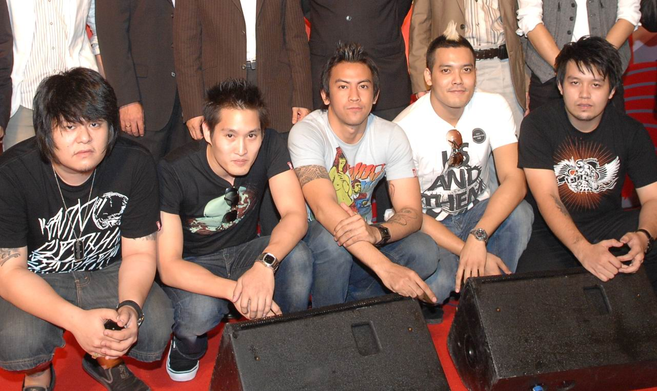 Brandnew Sunset at My Style My MTV